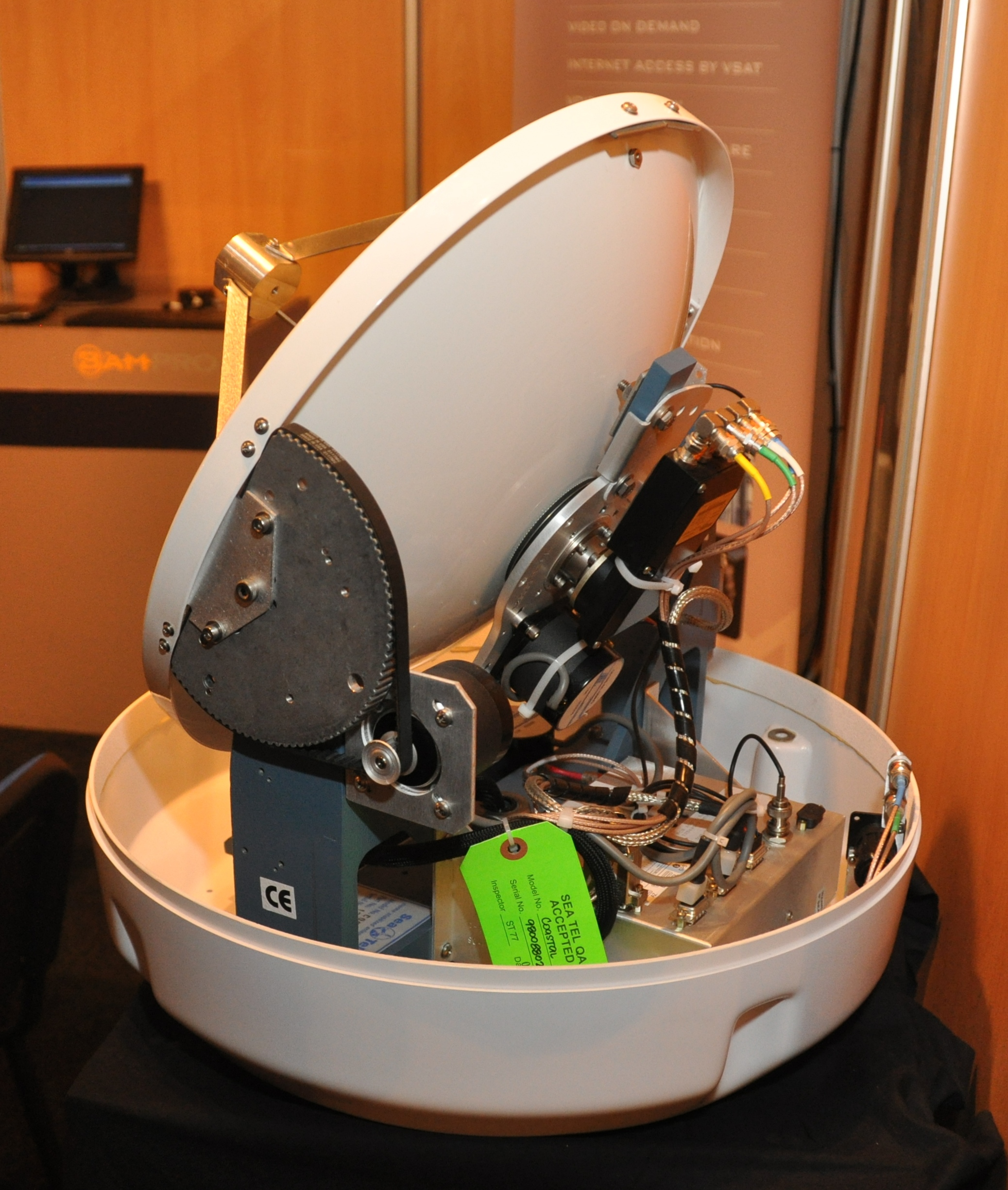 Construction & shipping industry 2010